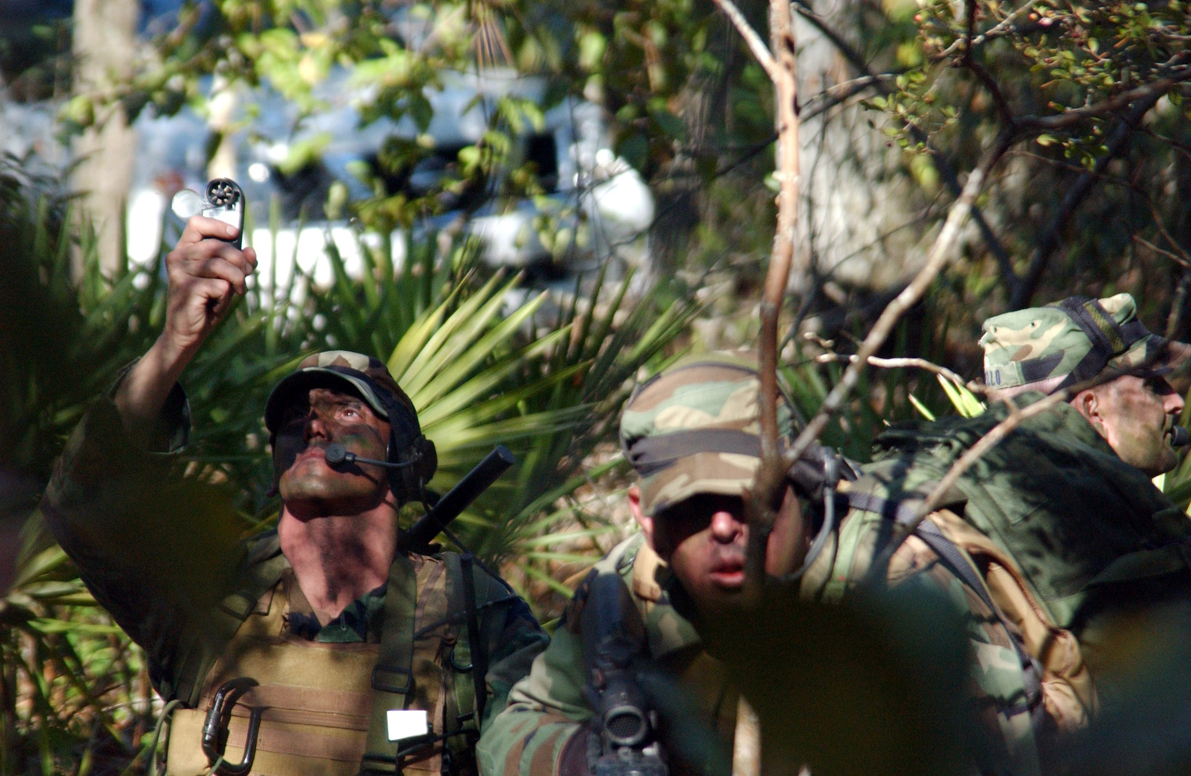 FLORIDA -- Tech. Sgt. Rick Rohde takes a wind velocity reading while Staff Sgt. Jody Ball, center, and Tech. Sgt. Jim Morello provide cover during a Special Operations Weather Team exercise near Hurlburt Field, Fla. The Special Operations Weathermen are members of the 10th Combat Weather Squadron at Hurlburt.